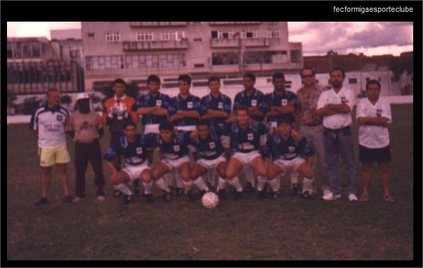 Formiga Esporte Clube - Equipe de 1991